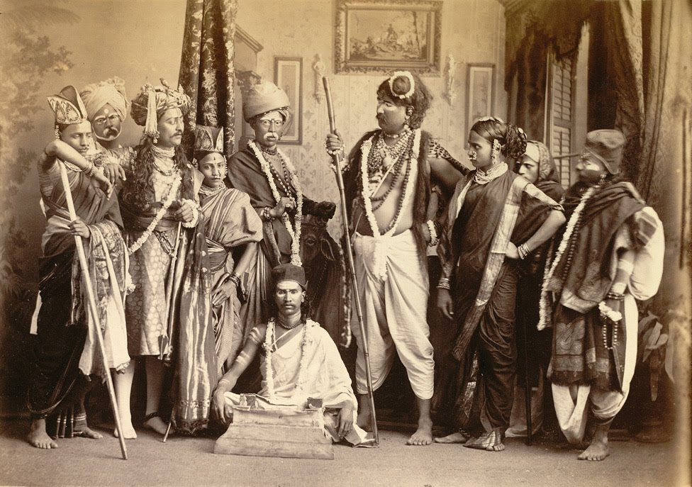 Photo of a Theatrical Group in Bombay from the Lee-Warner Collection: 'Bombay Presidency' by an unknown photographer in the 1870s. This was a studio portrait of a Marathi theatrical group, in costume, posed in front of a backdrop of a European interior. Marathi theatre has a long tradition of performance, incorporating songs and dances, and in the 18th century a popular form of folk theatre developed called Tamasha, with snatches of dance and acrobatic movements. Modern Marathi theatre originated in the mid-19th century.